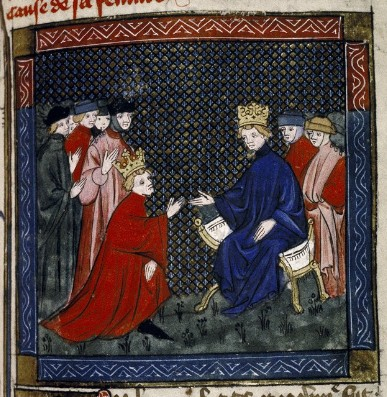 King of Navarre. Philip III, Comte d'Evreux, doing homage to Philippe de Valois